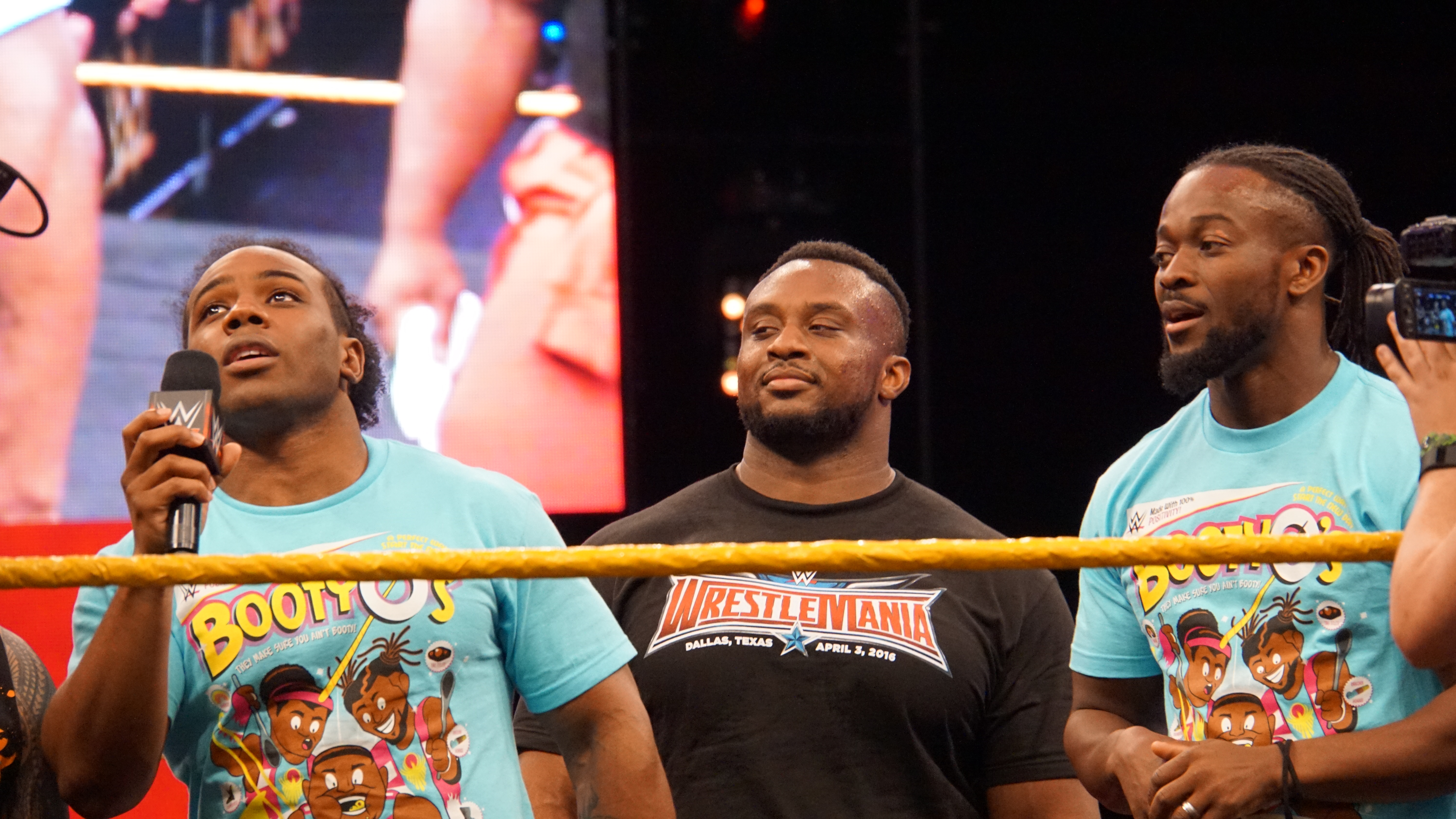 WrestleMania Axxess takes over the Kay Bailey Hutchison Convention Center in Dallas March 31-April 3. Featuring Superstar and Diva meet-and-greets, memorabilia displays and much more, WrestleMania Axxess is one event WWE fans of all ages will want to be part of. Don't miss out!